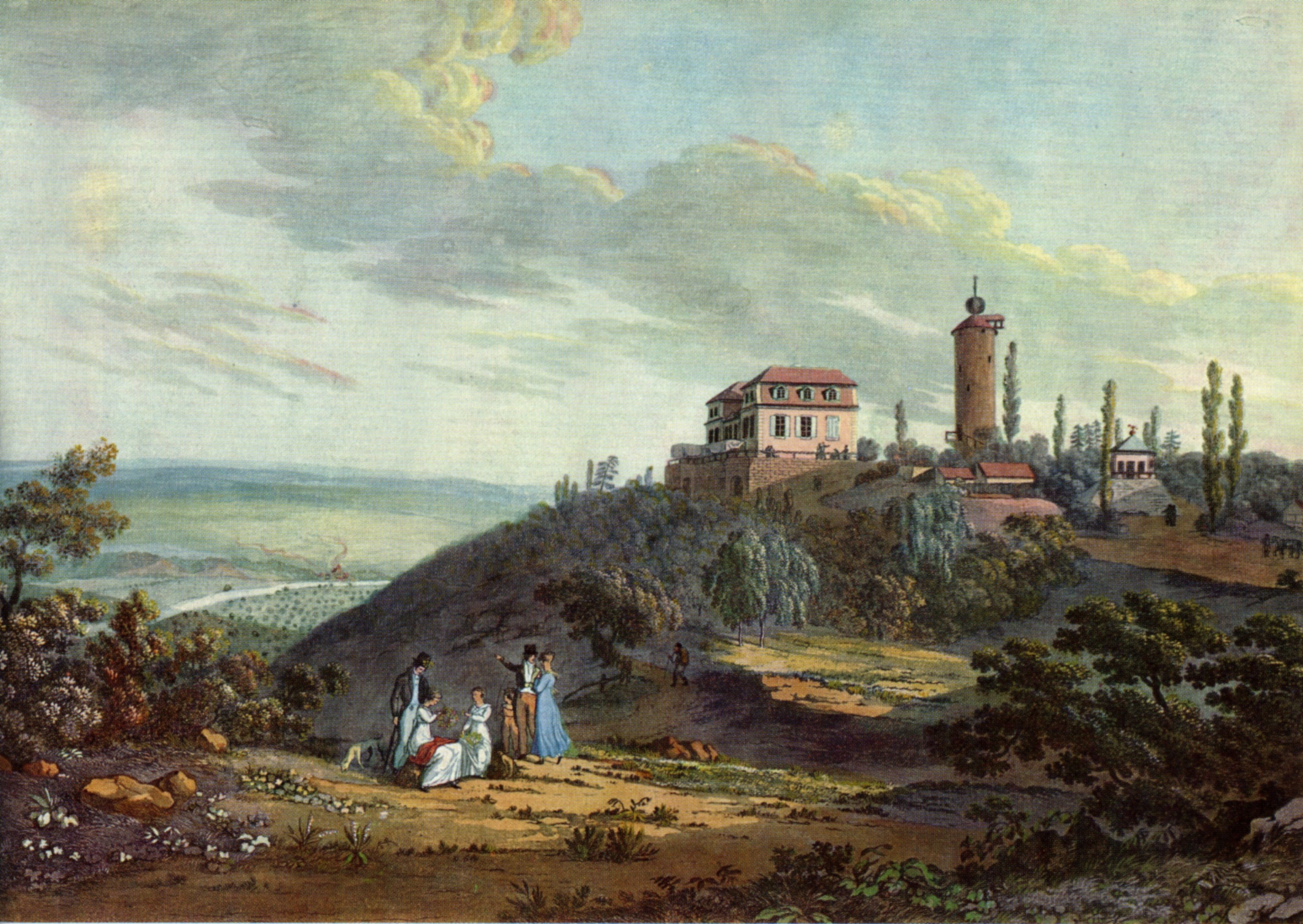 The Wartberg hill in Heilbronn (gouache)